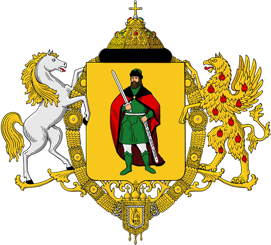 Ryazan, large coat of arms